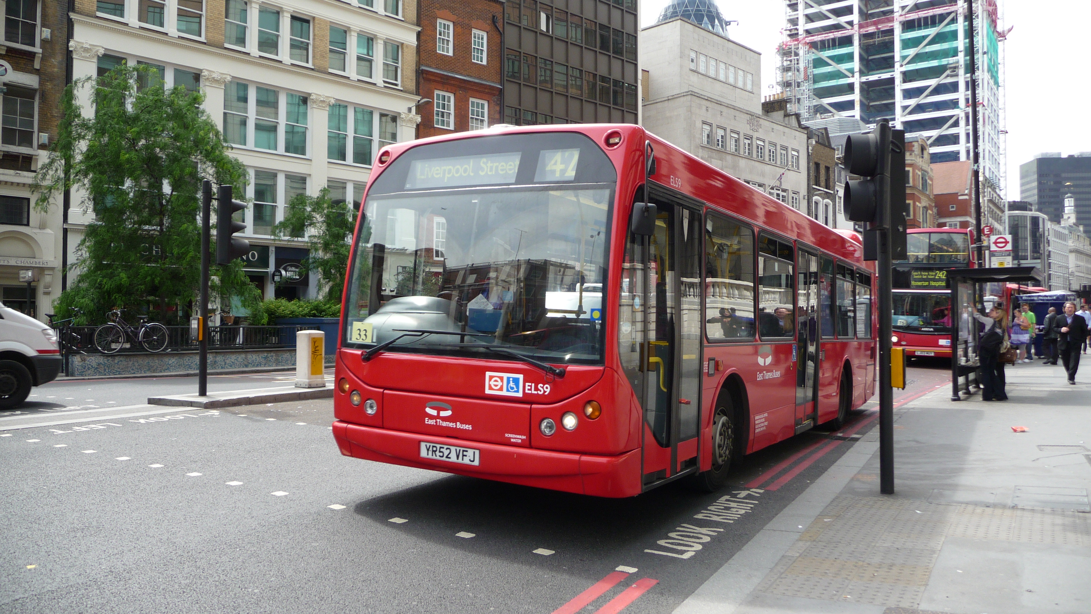 East Thames Buses ELS9 (YR52 VFJ), a Scania N94UB/East Lancs Myllennium, in Bishopsgate, City of London, on route 42.